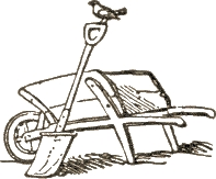 An illustration for the rhyme Little Robin Redbreast, from Anon, ‘’The Only True Mother Goose Melodies’’ (Munroe and Francis: Boston MA, 1833), p. 14. Taken from Project Gutenberg at [1]